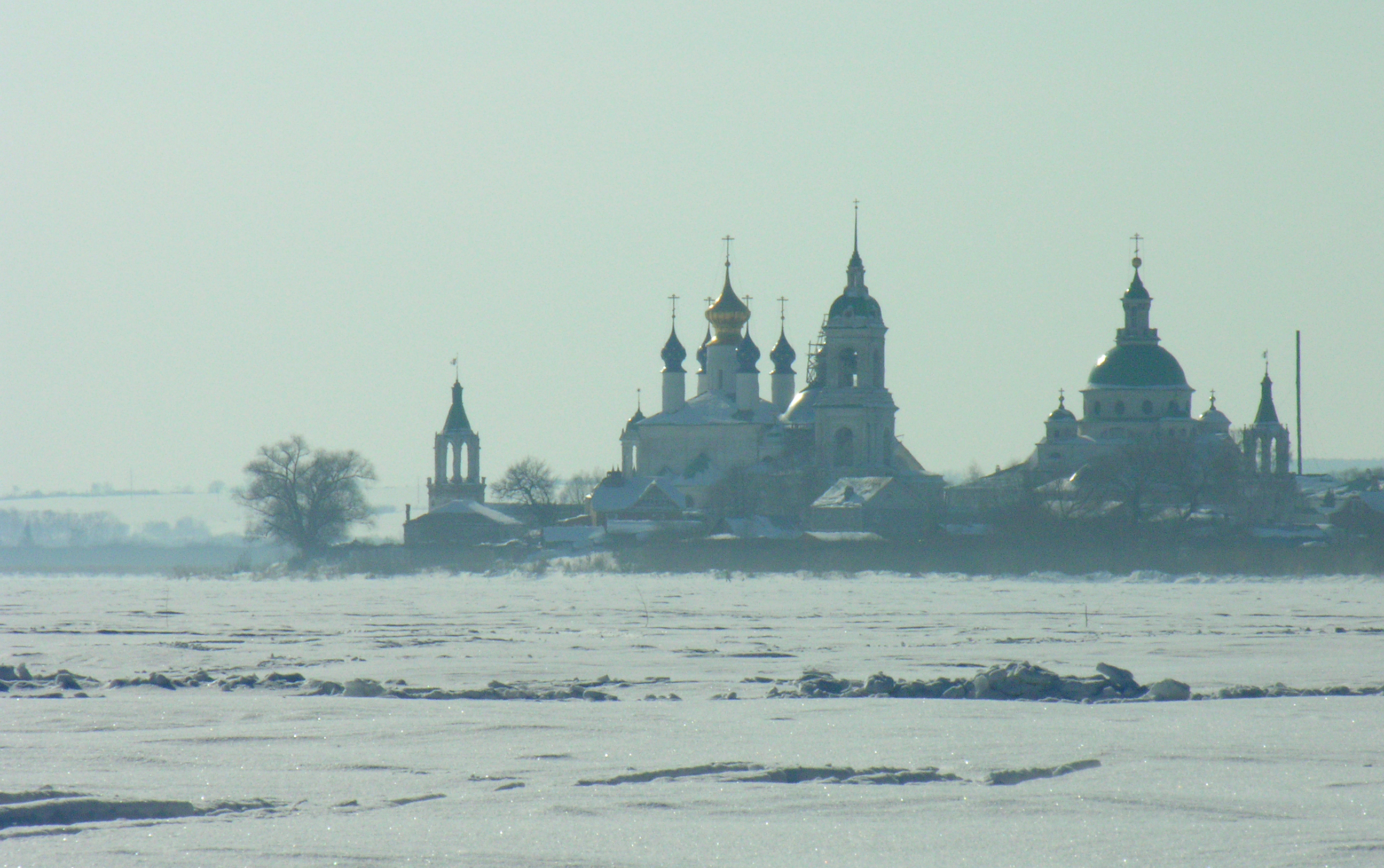 View to Spaso-Yakovlevsky abbey in Rostov from Nero Lake. Photo by Evgenia Kononova, 10 March 2006.